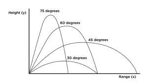 A graph of launch angles